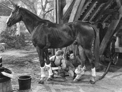 Promotional still from the 1944 film National Velvet